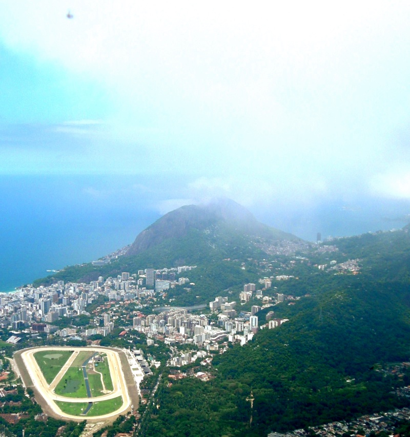 Gávea, Rio de Janeiro, Brazil. Jockey Club and Dois Irmãos hill.